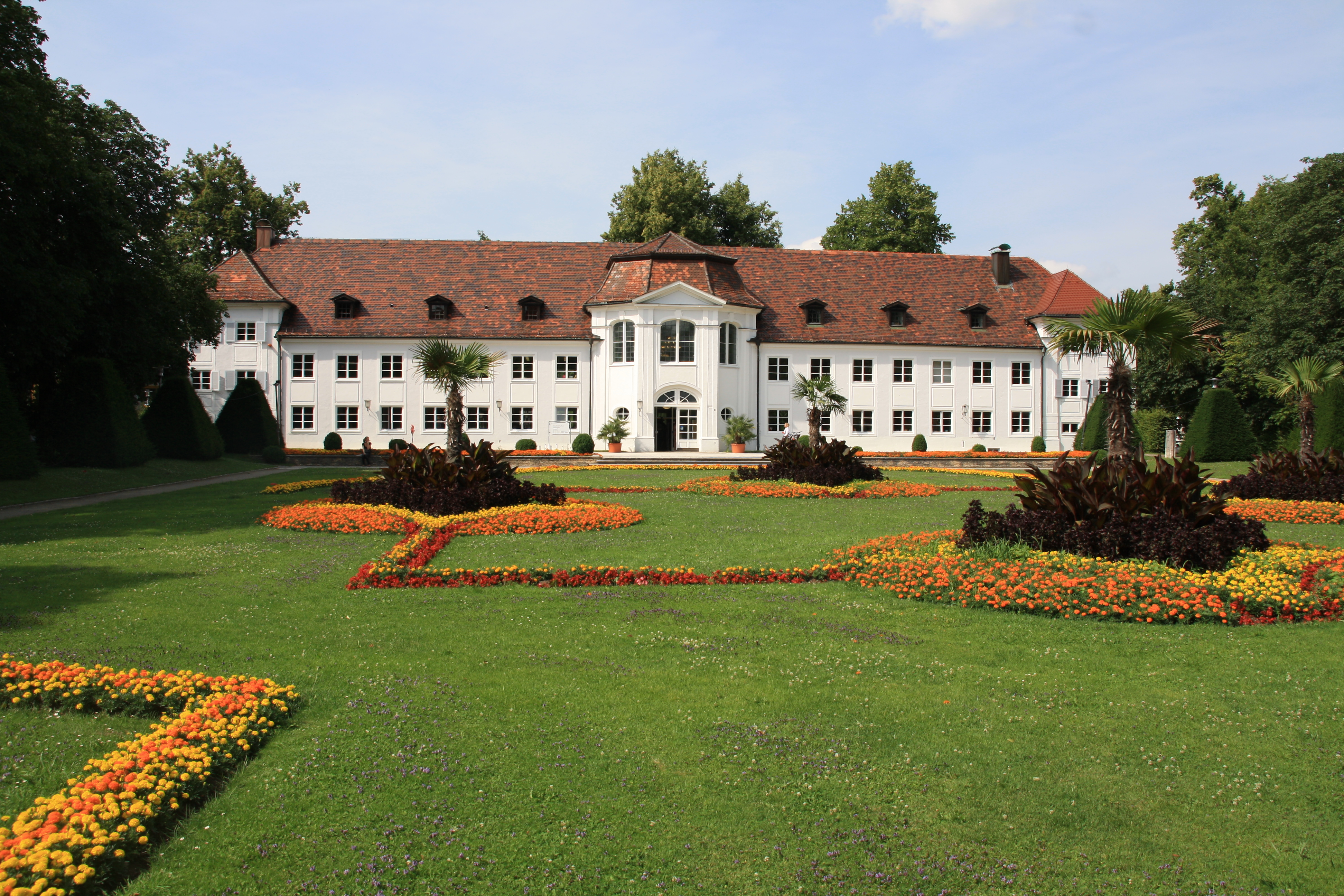 Orangerie in Kempten